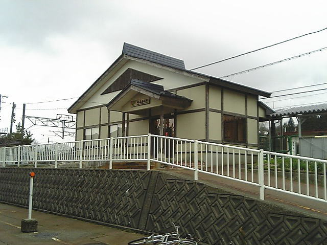 Echigo-Iwatsuka Station